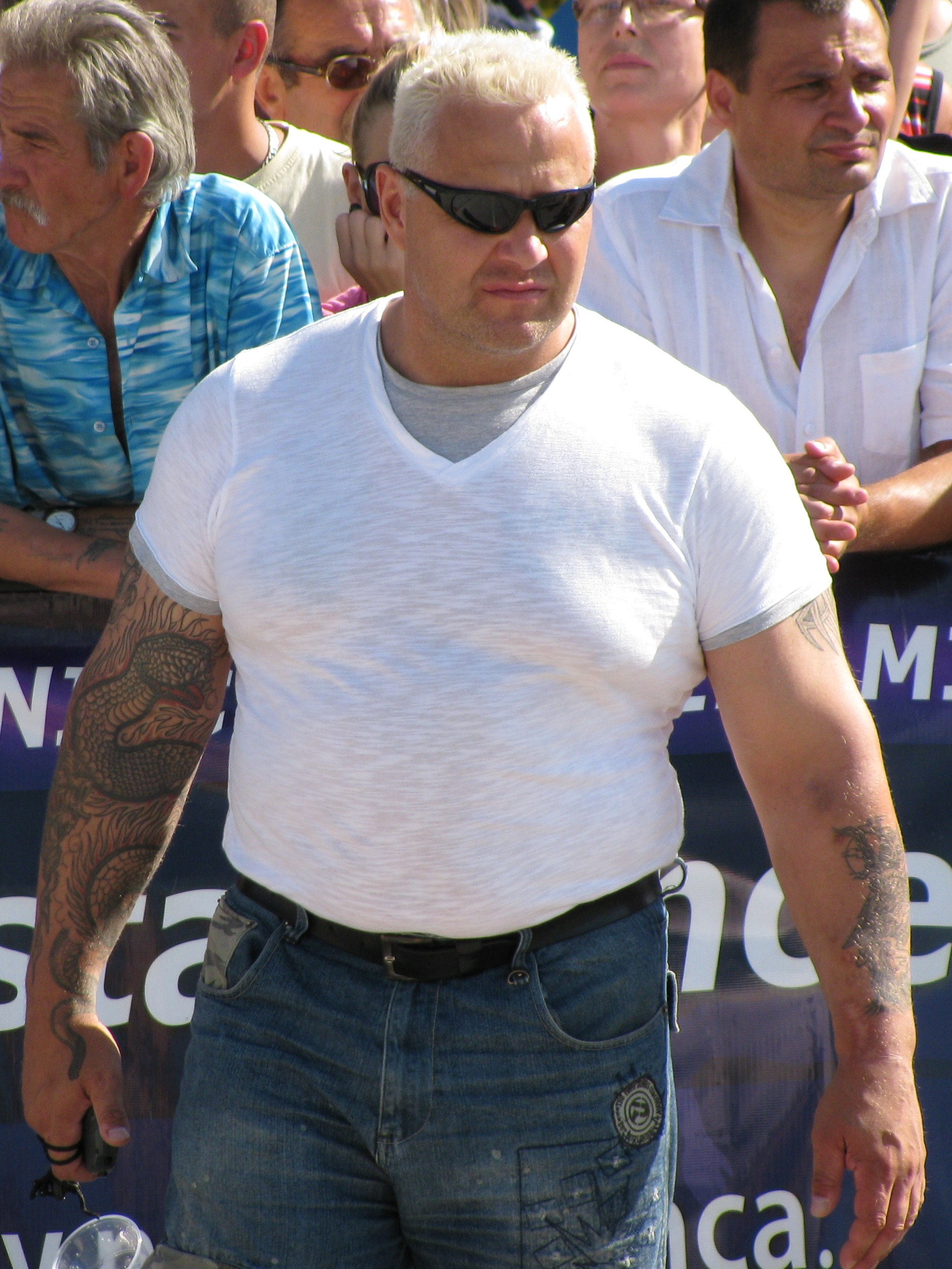 Svend Karlsen - a strength athlete from Norway. World's Strongest Man 2001.